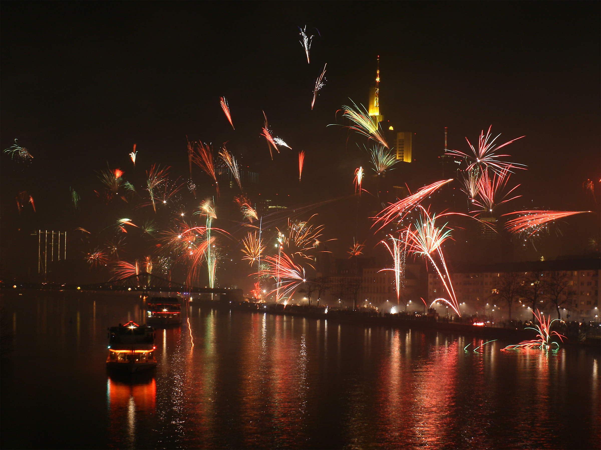 New Year fireworks in Frankfurt am Main, Germany